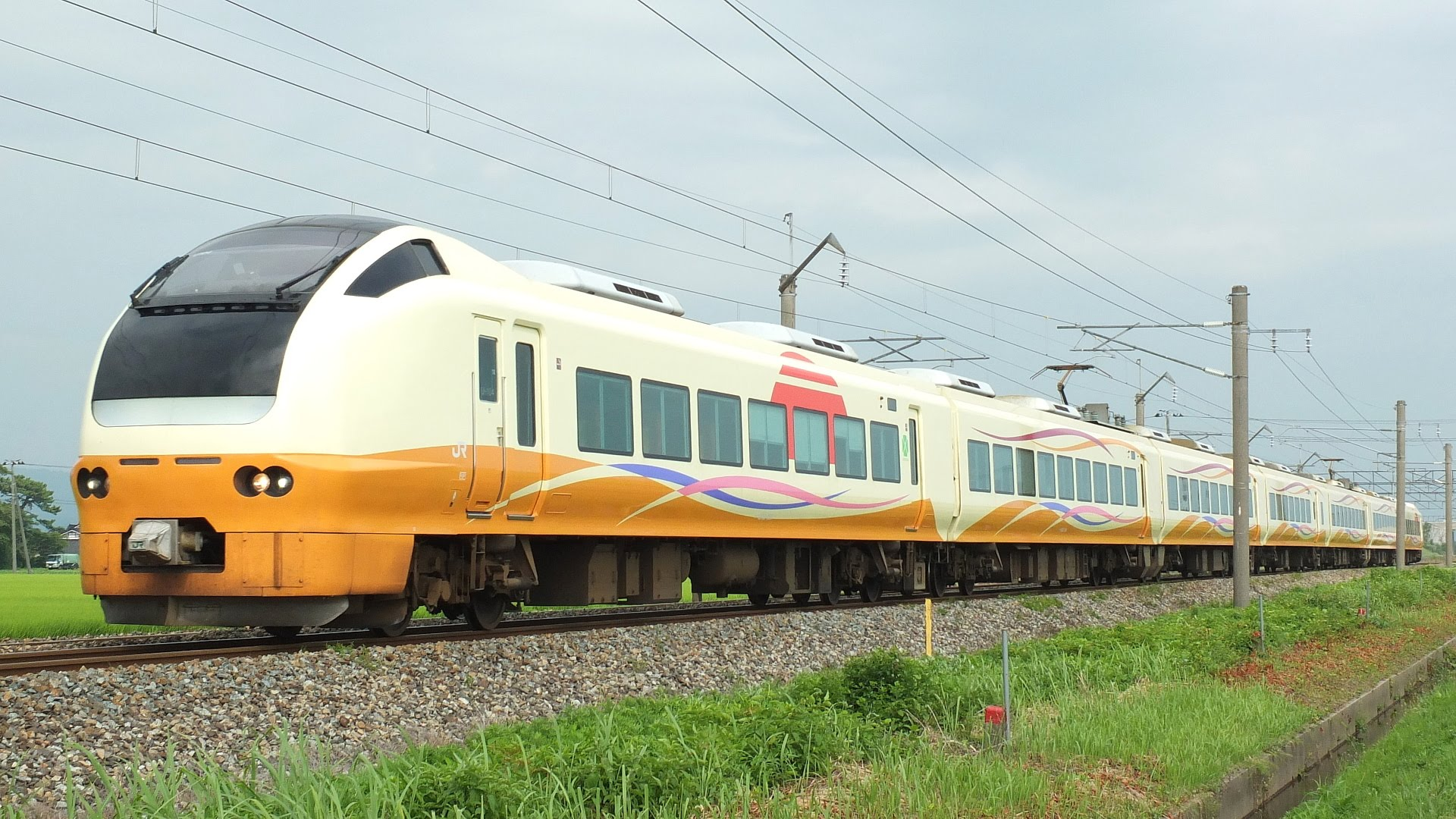 JR E653-1000 series EMU set U104 on the Inaho 5 limited express service near Higashi-Sakata